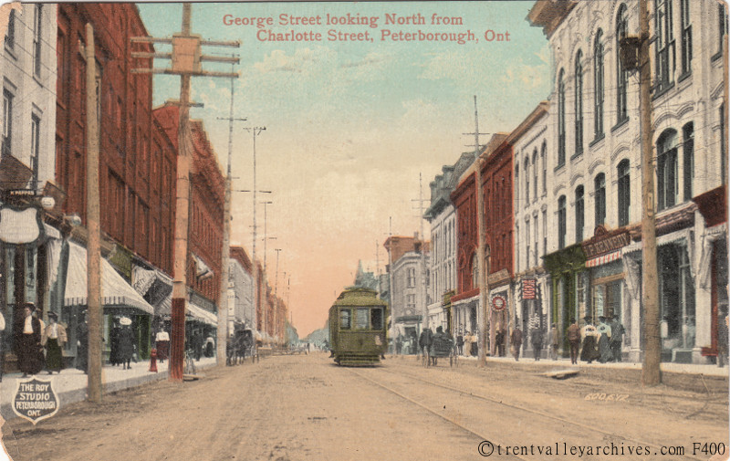 Postcard of a streetcar, on George Street, in Peterborough, Ontario.